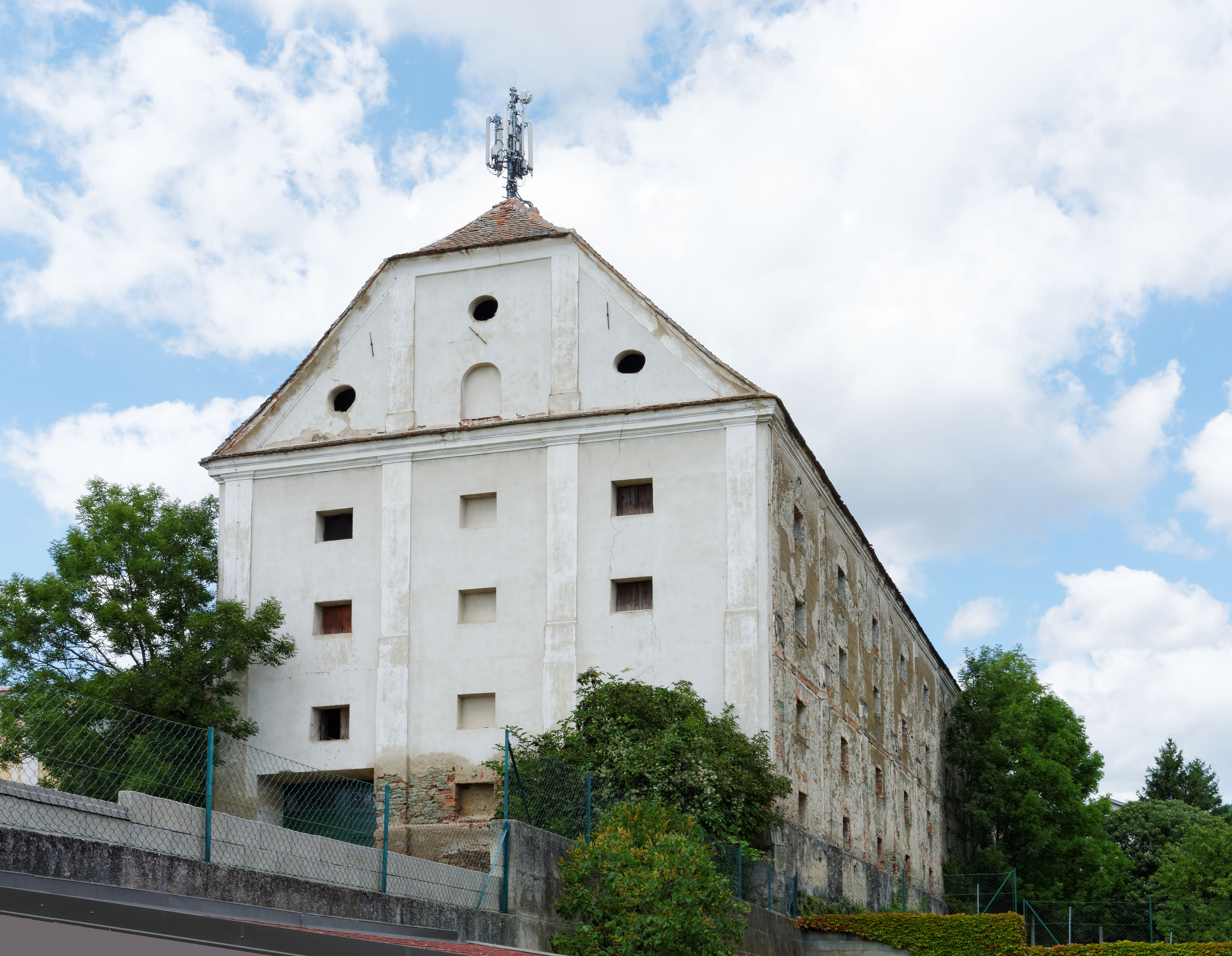 Granary in Rechnitz, Burgenland, Austria